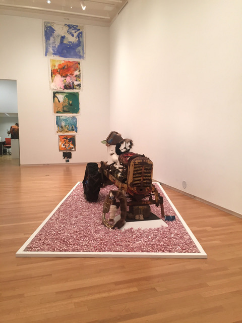 Mixed media sculpture installation installed at Goucher College art gallery